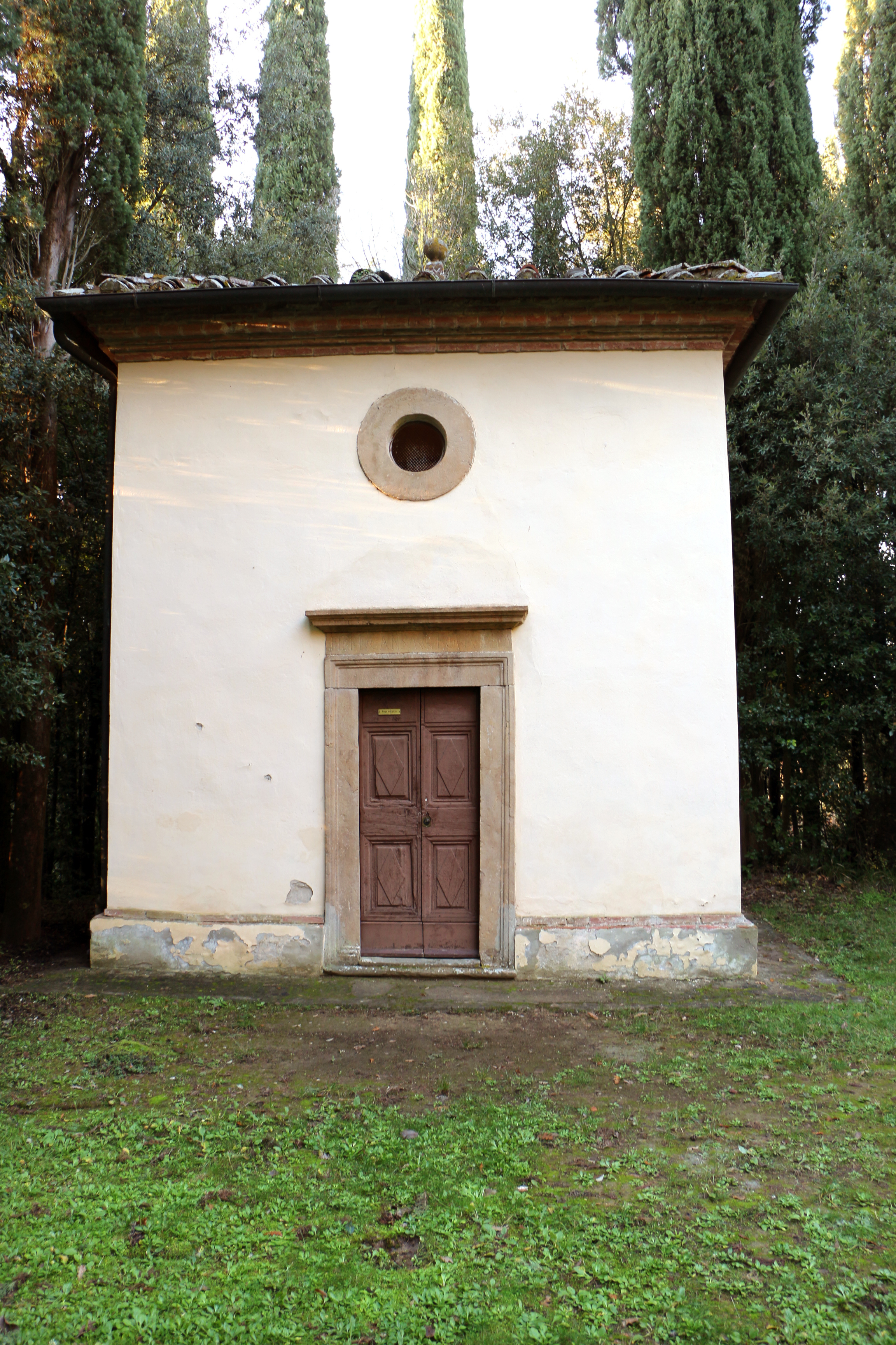 San Vivaldo Sacro Monte